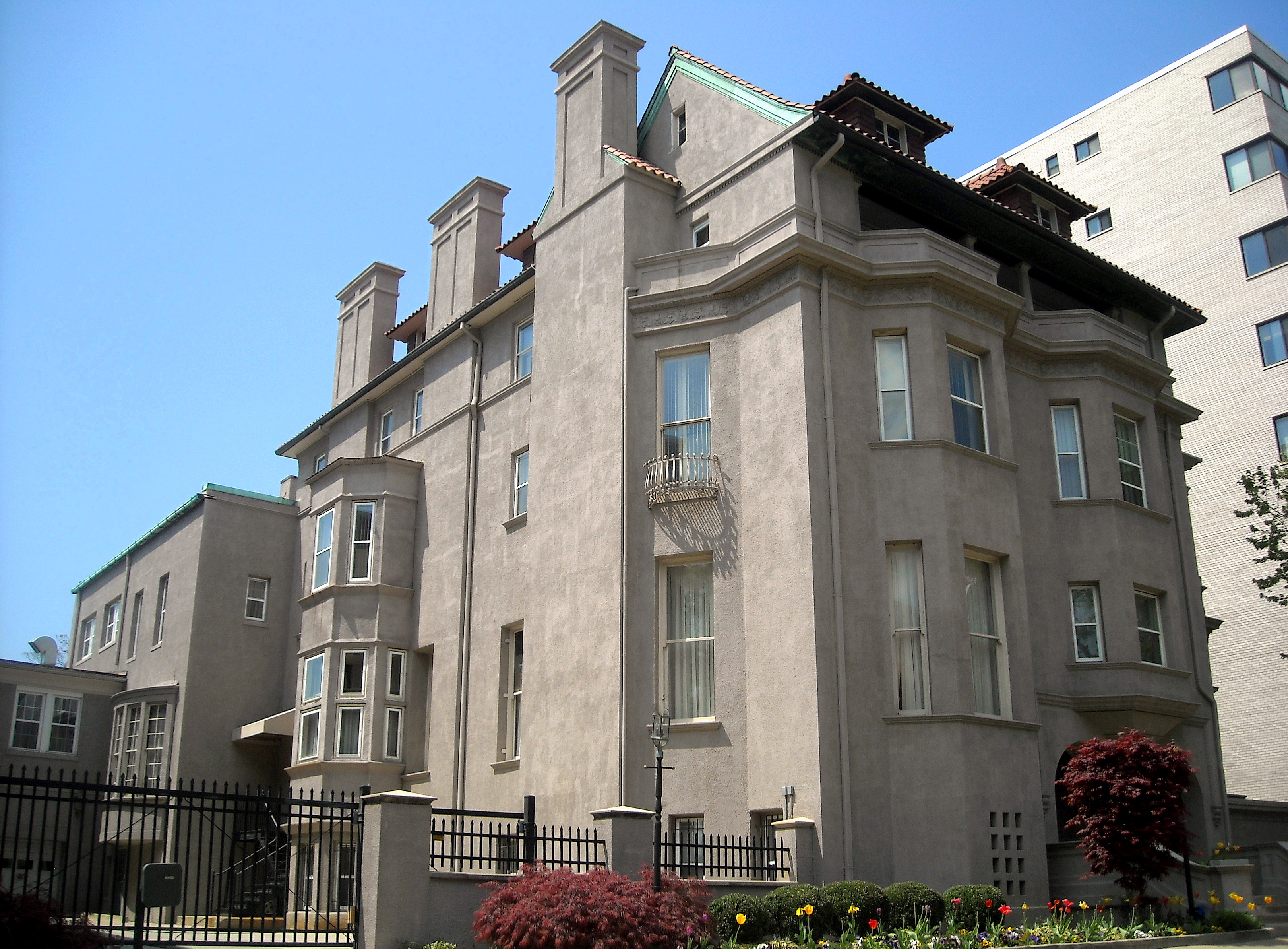 The Embassy of Angola is the diplomatic mission of Angola to the United States. The embassy is located at 2100 and 2108 (pictured; Consular Section and Press Office) 16th Street NW in Washington, D.C. The building pictured was constructed in 1898. Notable past owners of the residence include Thomas Wharton Phillips, Jr. , Arthur Lee, 1st Viscount Lee of Fareham, the Argentine embassy), the Cuban embassy, and the Black Women's Agenda. The building is a contributing property to the Sixteenth Street Historic District.